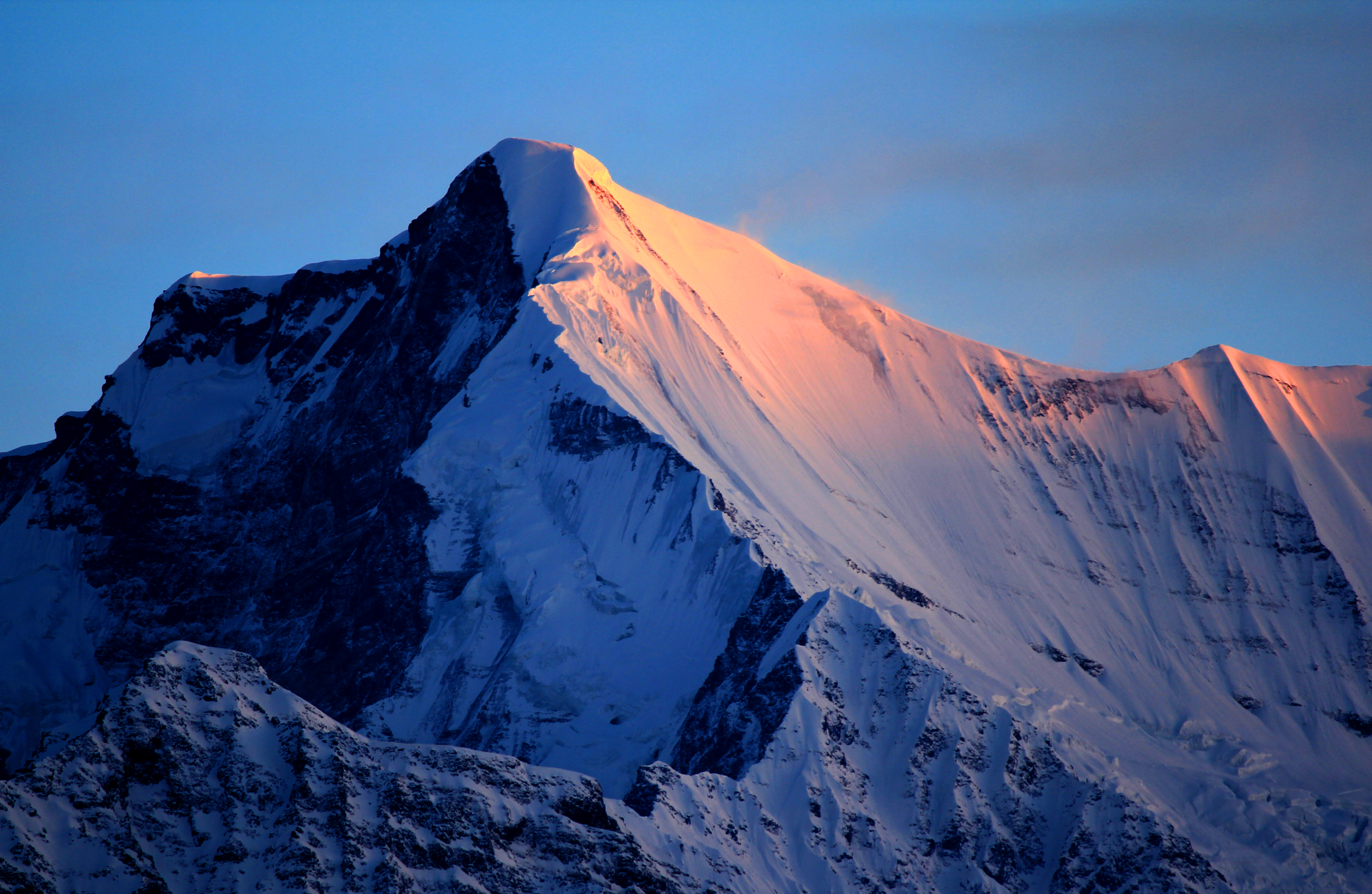 Maiktoli